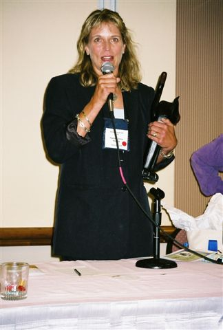 Harley Jane Kozak, American actress and author.